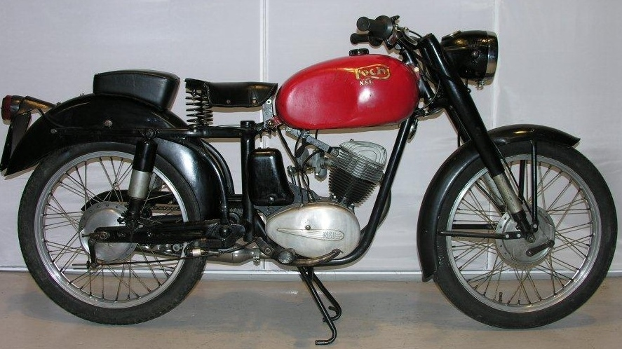 1953 Fochj motorcycle with NSU 98 cc OHV-engine